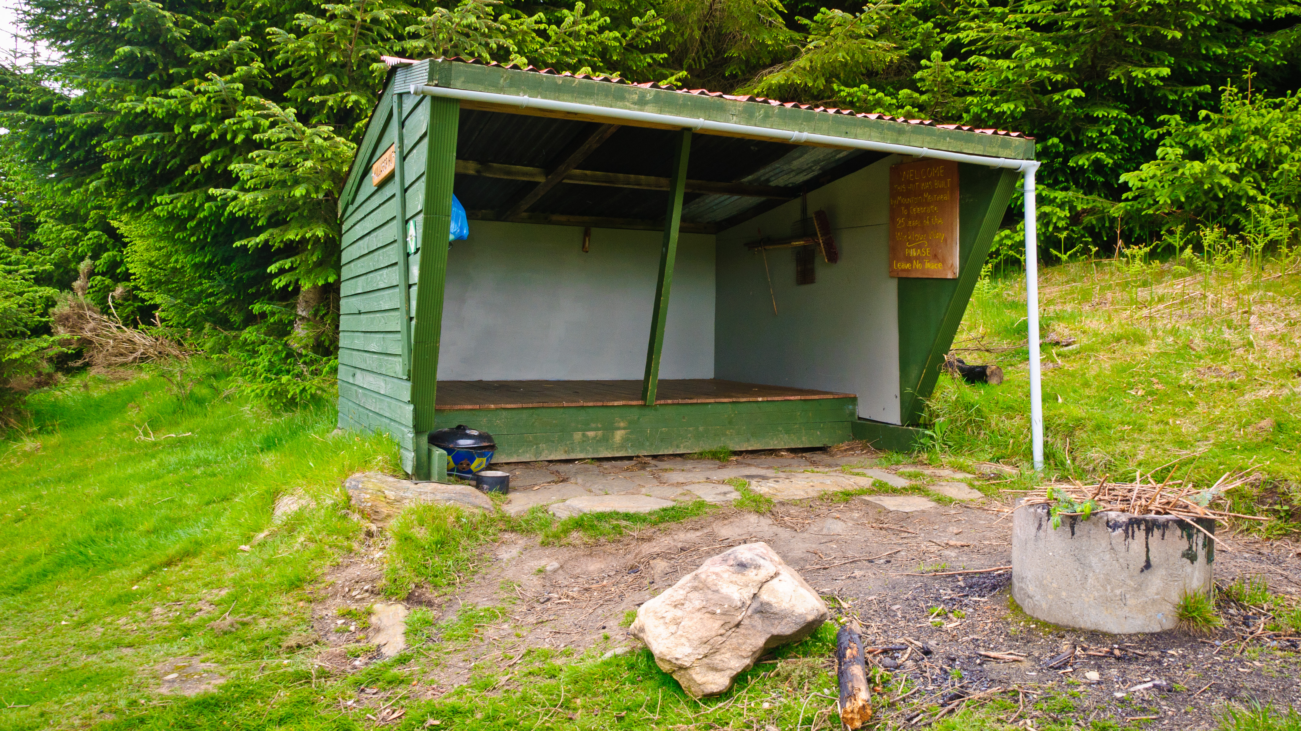 Mullacor Hut - an Adirondack shelter constructed by Mountain Meitheal, a volunteer group dedicated to trail conservation, on the slopes of Mullacor mountain, Glenmalure valley, County Wicklow, Ireland.